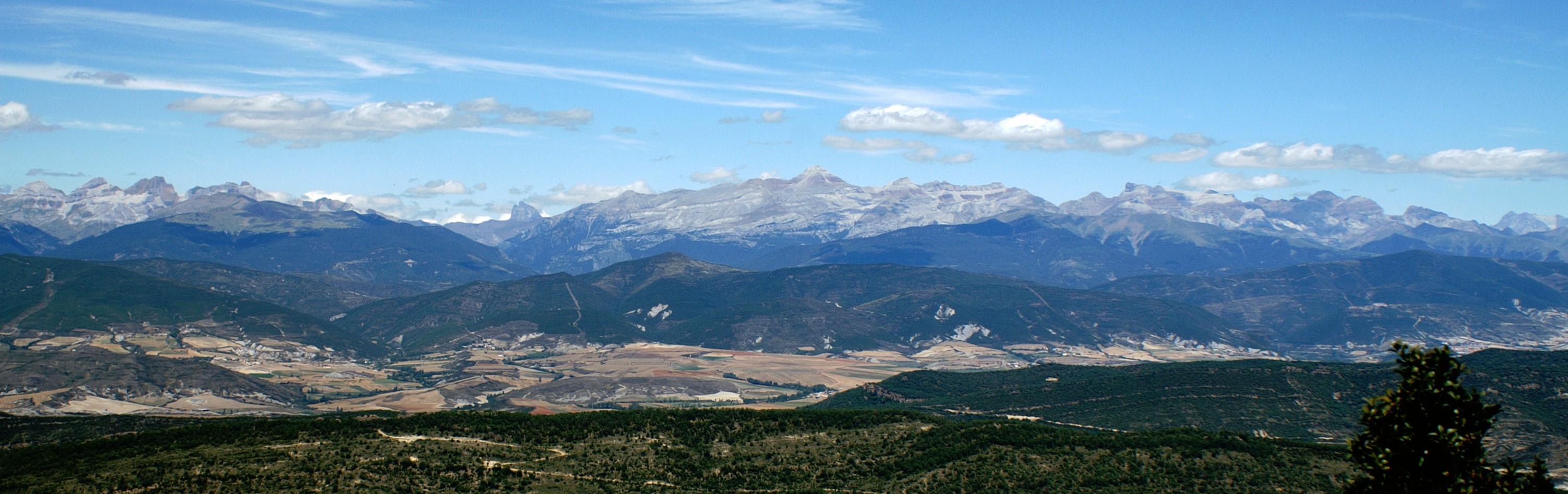 Pireneos, view from South